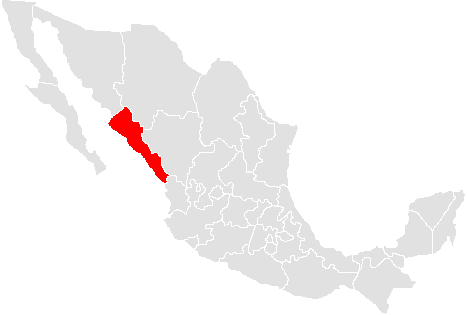 A map of the Mexican state of sinaloa made by me